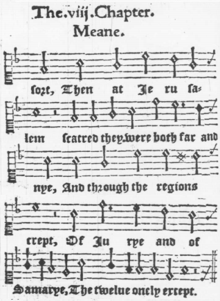 The "meane", i.e top part of chapter VIII in Christopher Tye's Actes of the Apostles of 1553. The latter half of the piece was adapted and used as the tune of the famous Christmas carol tune "Winchester Old", otherwise known as "While Shepherds Watched their Flocks by Night". Part combined from two pages (the book is laid out in the then-standard 4 parts per page)